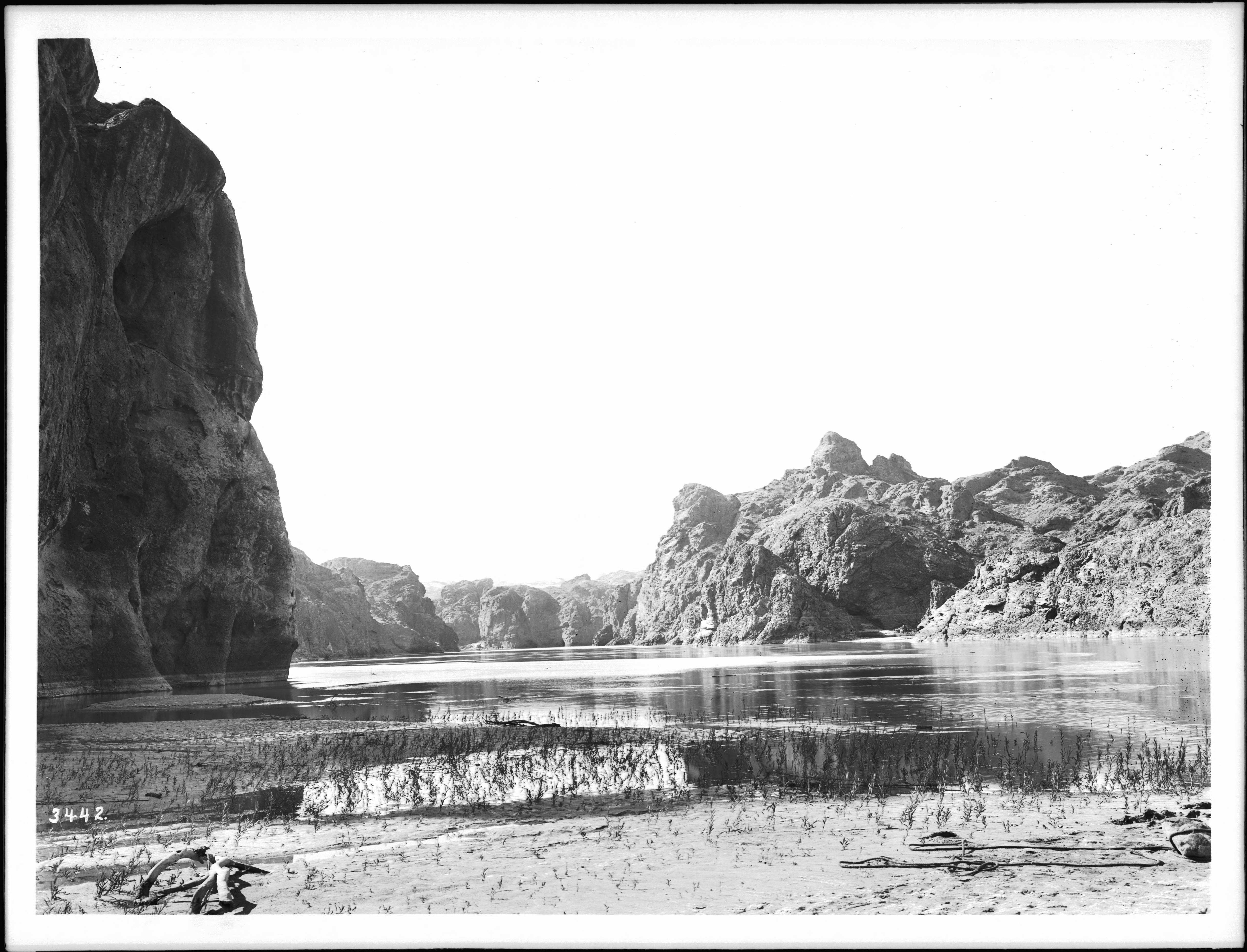 The Colorado River entering Mojave Canyon, California, 1900-1950 Photograph of the Colorado River entering Mojave Canyon, San Bernardino County, California, 1900-1950. A steep rocky embankment looms in shadow at left. A tide mark is visible on the nearly vertical wall near the water line. The near bank is dried cracked mud. A few small pieces of driftwood sit on the bank. A rope lays on the bank at right. Across the placid river and in the distance rocky hills rise. Call number: CHS-3442 Photographer: James, George Wharton Filename: CHS-3442 Coverage date: 1900/1950 Part of collection: California Historical Society Collection, 1860-1960 Format: glass plate negatives Type: images Part of subcollection: Title Insurance and Trust, and C.C. Pierce Photography Collection, 1860-1960 Repository name: USC Libraries Special Collections Accession number: 3442 Microfiche number: 1-61- Archival file: chs_Volume95/CHS-3442.tiff Repository address: Doheny Memorial Library, Los Angeles, CA 90089-0189 Geographic subject (country): USA Format (aacr2): 2 photographs : glass photonegative, photoprint, b&w ; 17 x 22 cm. Rights: Digitally reproduced by the USC Digital Library; From the California Historical Society Collection at the University of Southern California Subject (adlf): rivers Project: USC Repository Contributing entity: California Historical Society Date created: 1900/1950 Publisher (of the digital version): University of Southern California. Libraries Format (aat): photographic prints; photographs Geographic subject (state): California Legacy record ID: chs-m16061; USC-1-1-1-14306 Geographic subject: rivers: Colorado River; canyons: Mojave Canyon Access conditions: Send requests to address or e-mail given. Phone (213) 821-2366; fax (213) 740-2343. Subject (file heading): Natural features -- Rivers -- Colorado River Subject (lcsh): Rivers